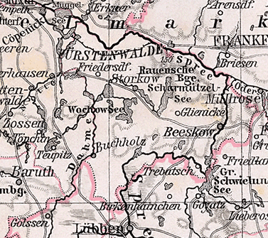 Detail from a map of Brandenburg.